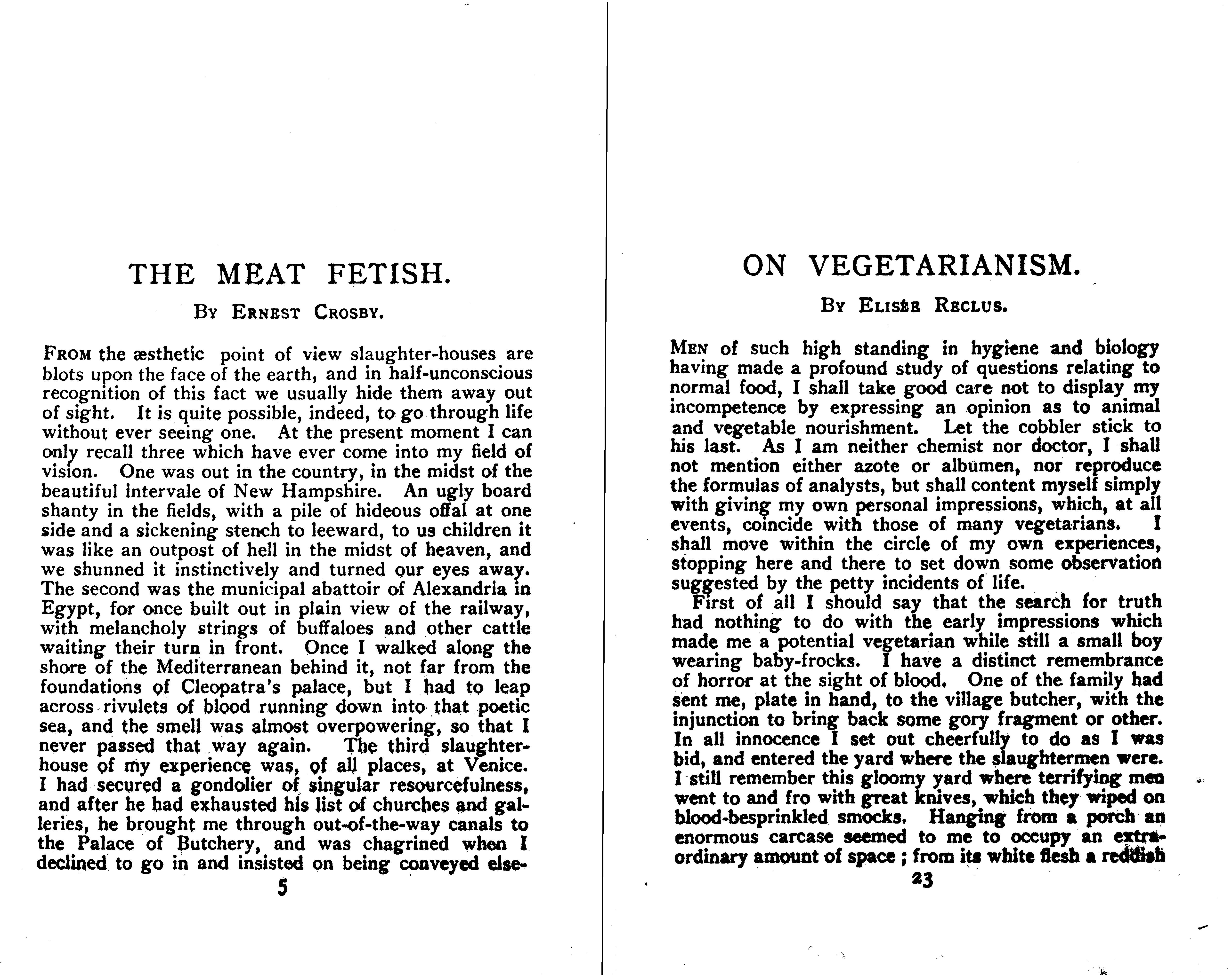 Essay cover pages in The Meat Fetish, "The Meat Fetish" and "On Vegetarianism."